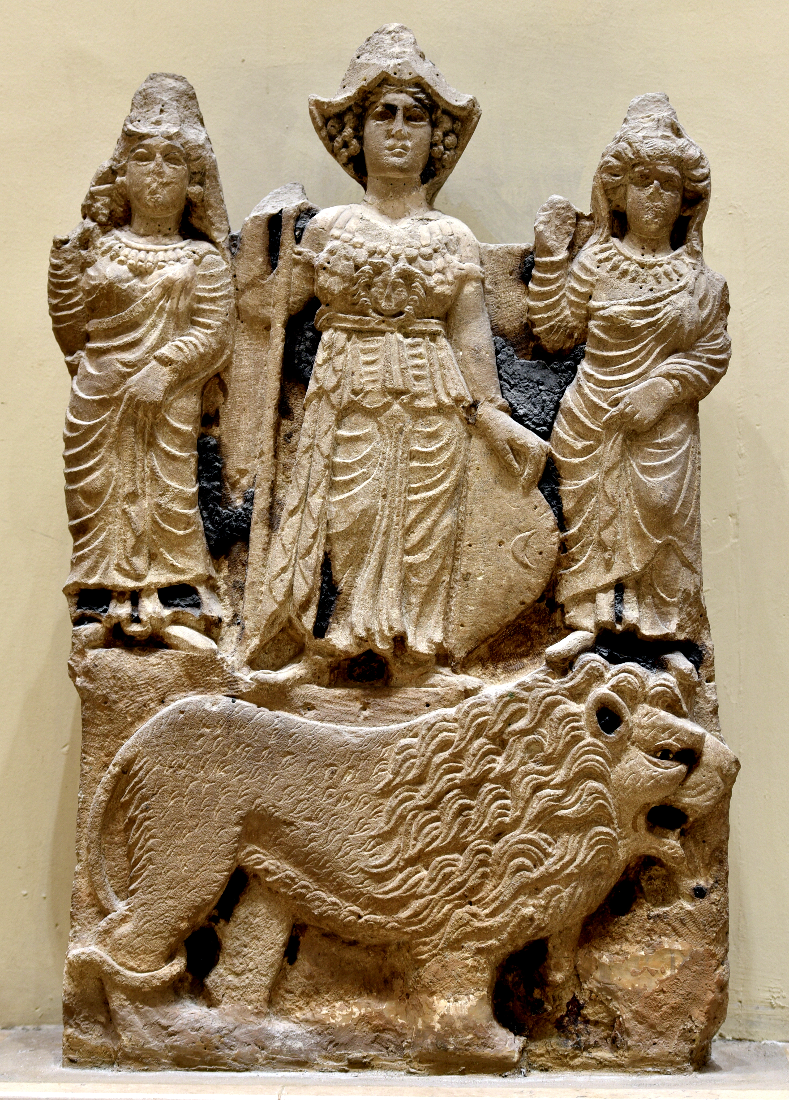 This carved scene in relief depicts 3 women above a standing and roaring lion. In the middle Al-Lat (also Allat, Allatu, and Alilat) wears a wonderful military attire and head cap (similar to Athena). Her right arm holds a long spear while the left hand holds a shield. Medusa appears on her chest. Al-Lat stands on both feet. She is flanked by two smaller female figures; both of them raise their right hand in salutation while their left hands grasp and lift up an elegant garment. They also stand on their left foot while their right foot is a little bit relaxed, unlike Al-Lat. It is unknown whether these females represent worshippers or the goddesses Manat and al-Uzza. From the 5th temple at Hatra, Ninawa Governorate, Iraq. Parthian period, 1st to 3rd century CE. On display at the Iraq Museum in Baghdad, Iraq.